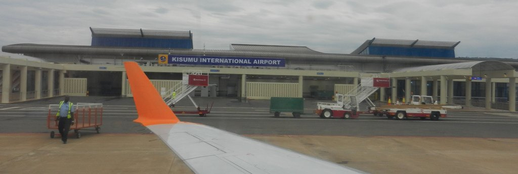 kisumu international airport